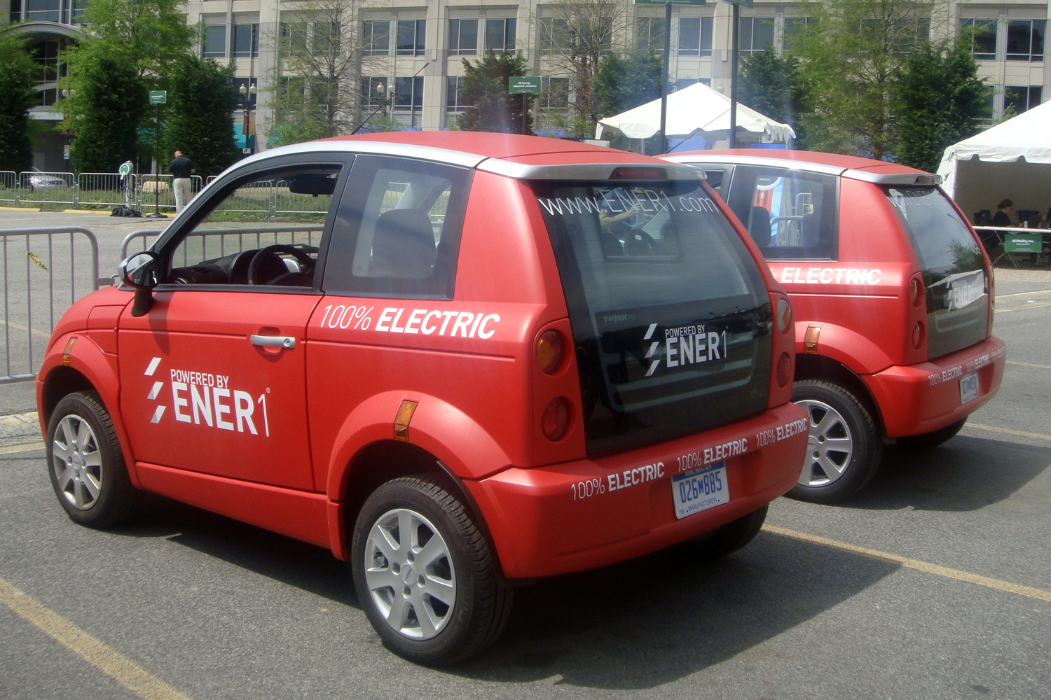 Th!nk City electric cars at the Ride, Drive & Charge event organized by the EDTA, downtown Washington, D.C.